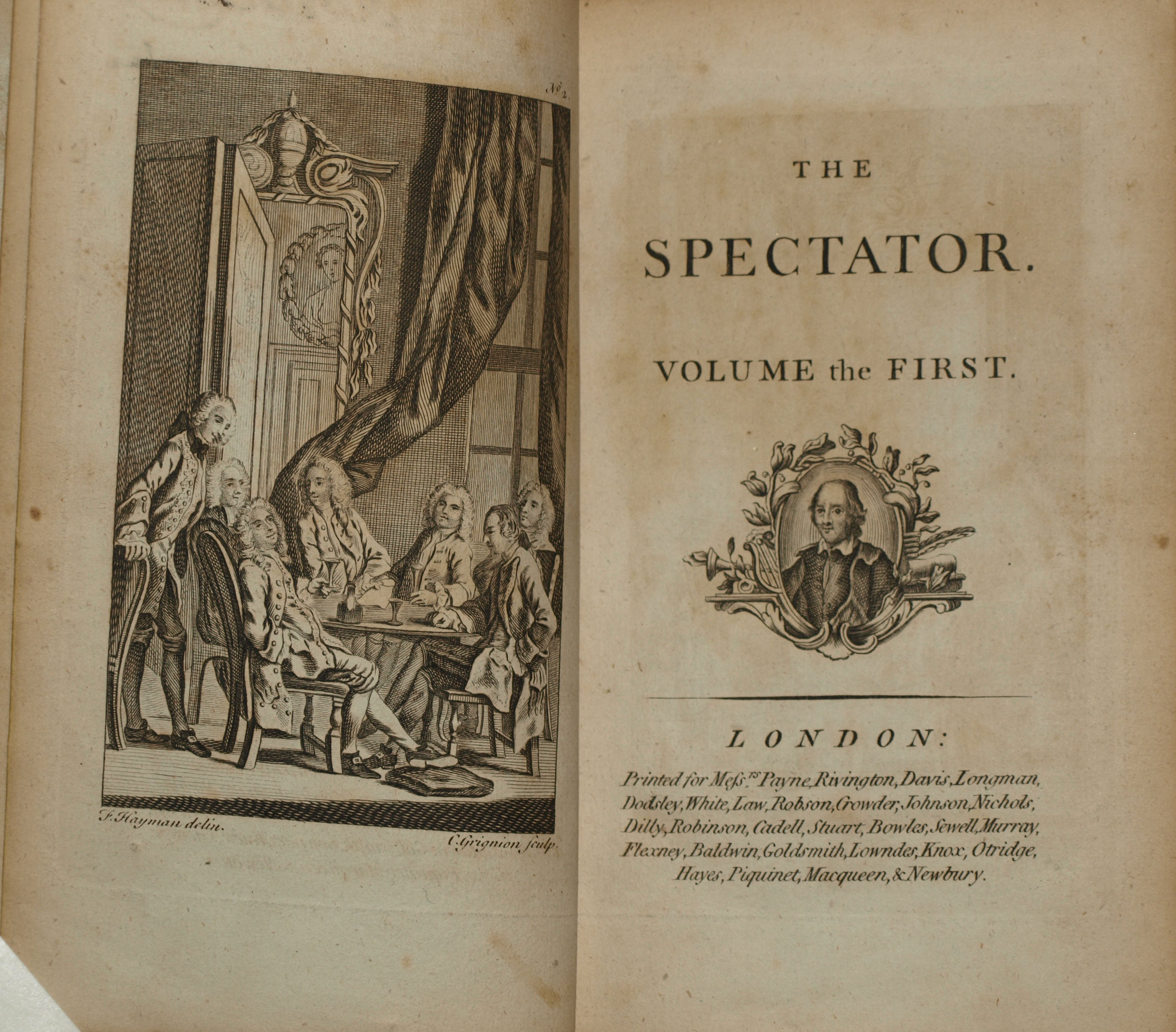 Title pages of the ca. 1788 edition of the first volume of the collected edition of Addison and Steeles The Spectator.